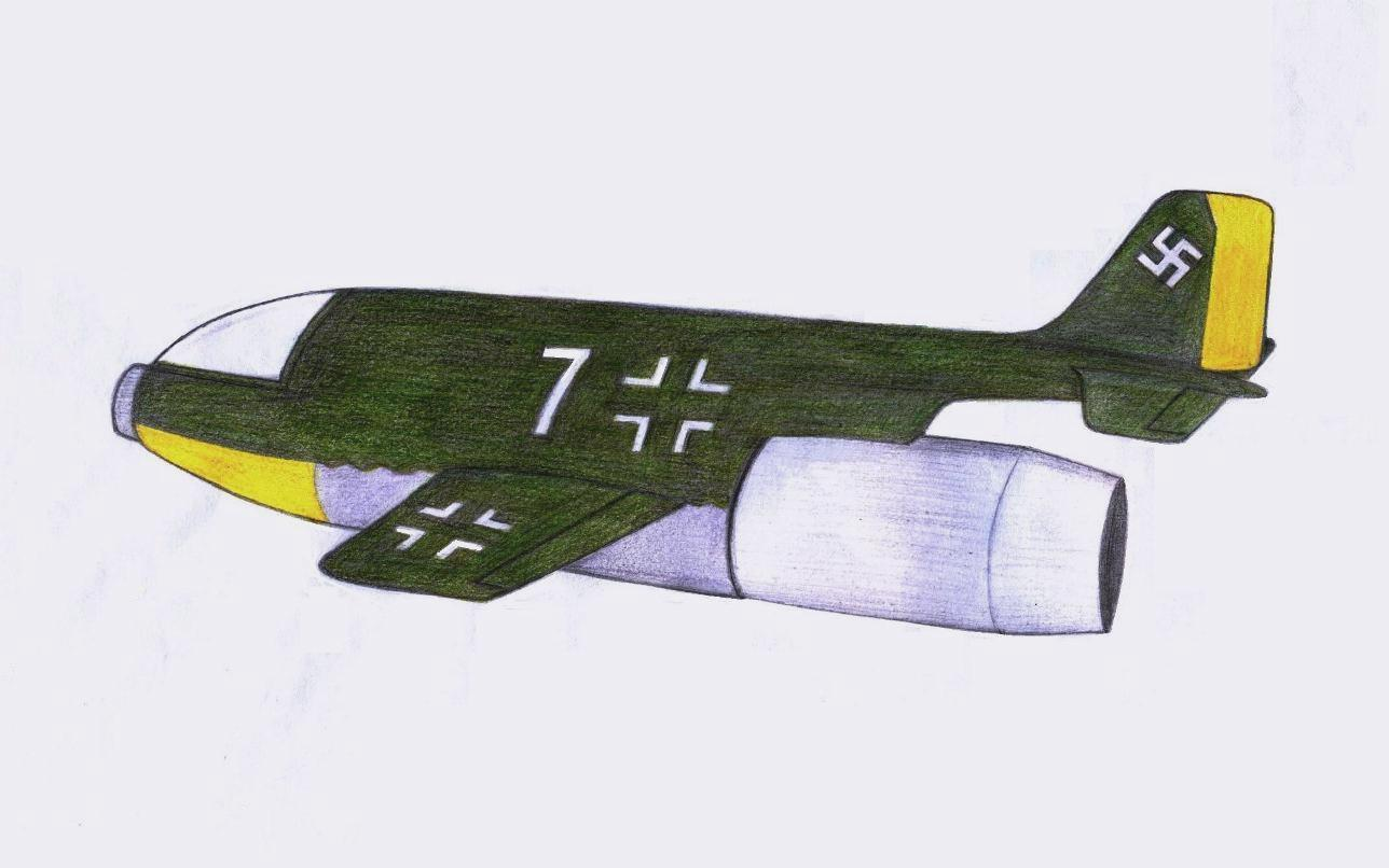 Škoda-Kauba Sk P.14.01 ramjet-powered emergency fighter